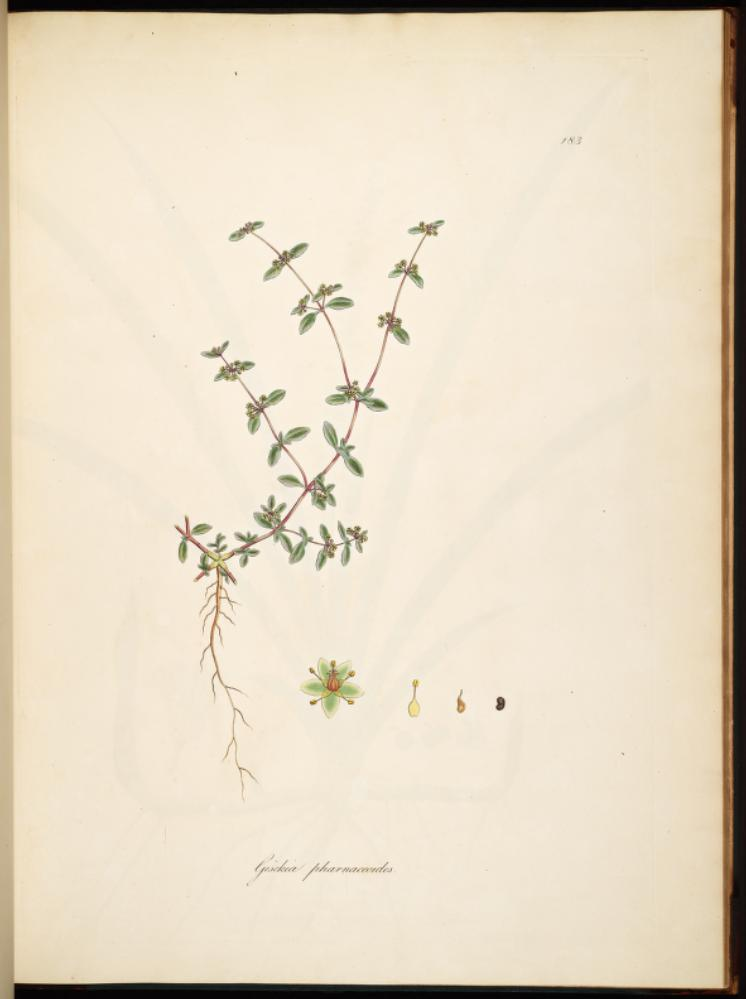 Illustration of Gisekia pharnacioides